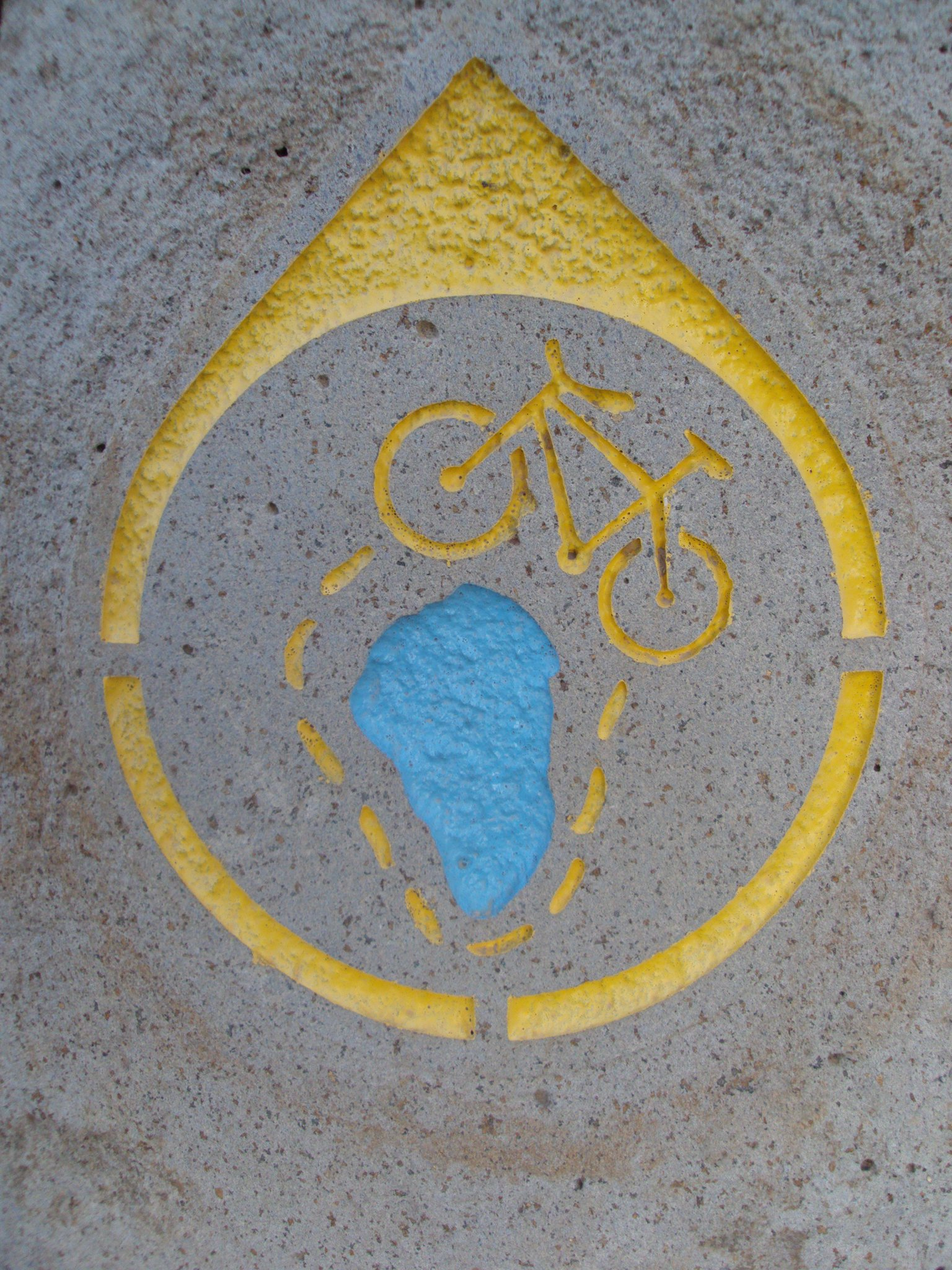 around the Kinneret, Bicycle road Symbole.